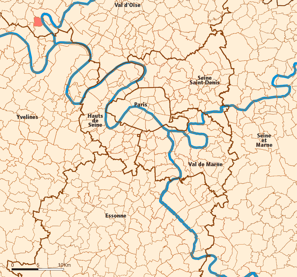 Created map myself.